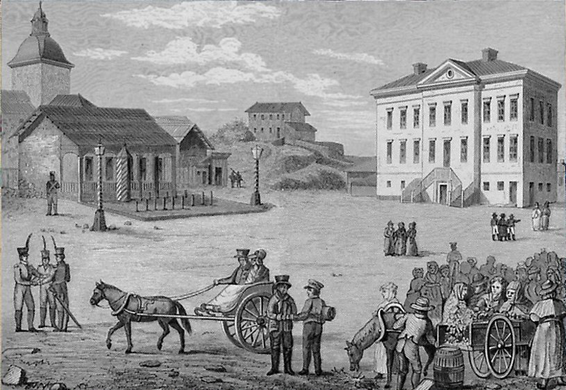 City Hall Square in Helsinki, Finland in 1820, before the rebuilding of Central Helsinki